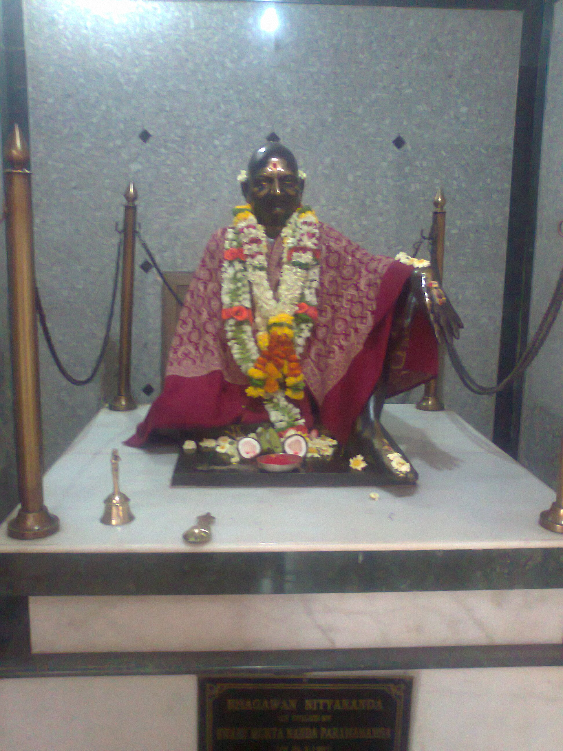 Life size statue of Yogi and Hindu Guru Bhagawan Nityananda at the Mumbai Bunt Sangha Headquarters in Chunabhatti,Mumbai,India.